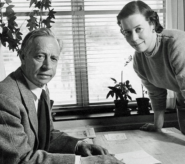 Architect Erik Bryggman (1891–1955) and daughter, interior architect Carin Bryggman (1920–1993), in 1950.